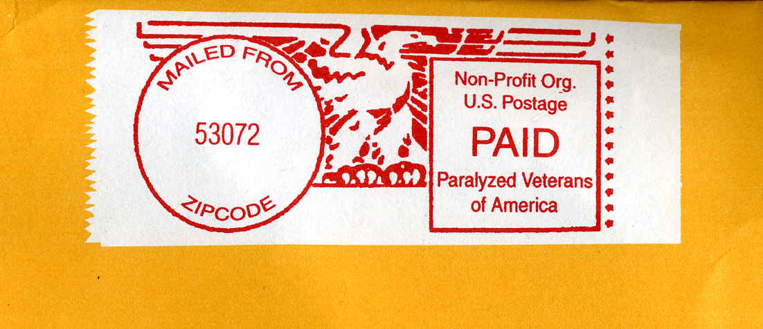 An example of the U.S. Nonprofit Organization postage meter marking made with a Pitney Bowes mailstream system (detail). 2007.